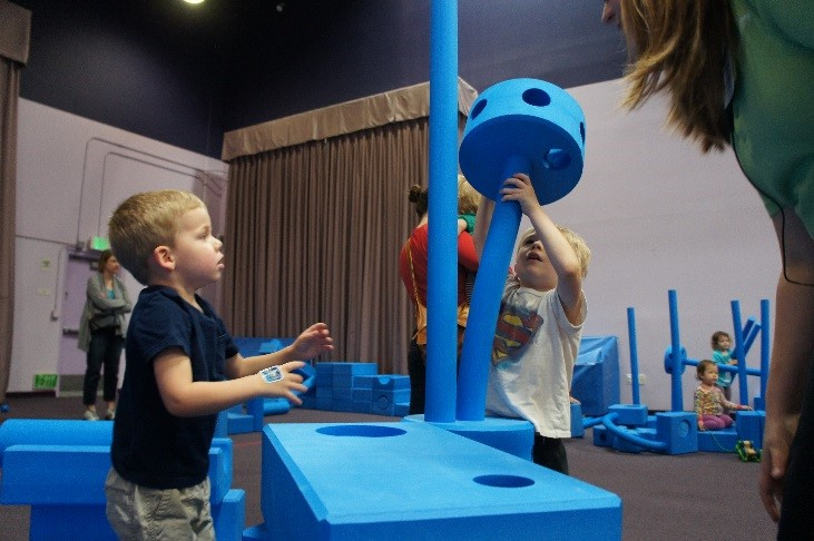 Children working together to create something at the Imagination Playground